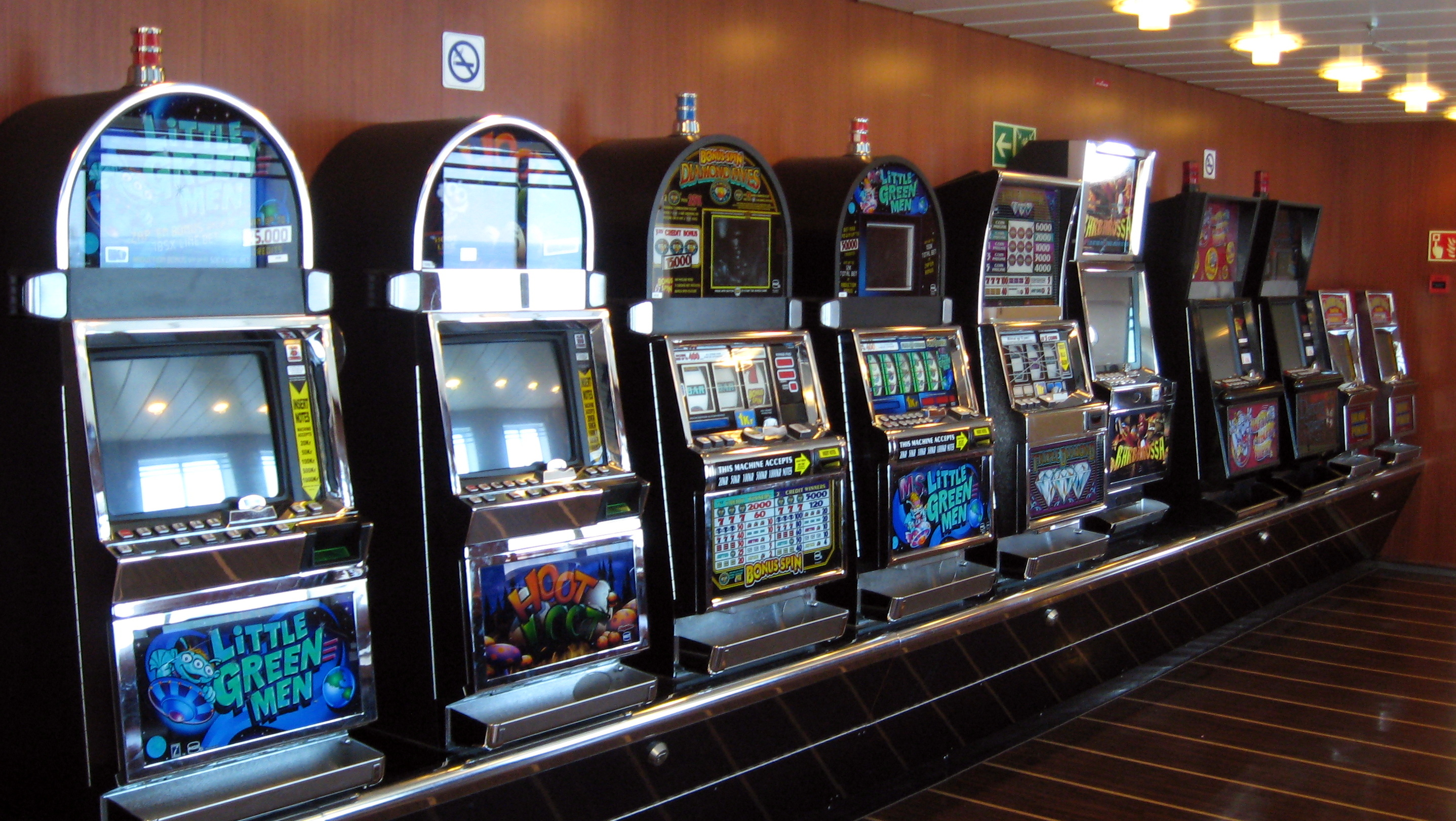 slot machines, one-arm bandits